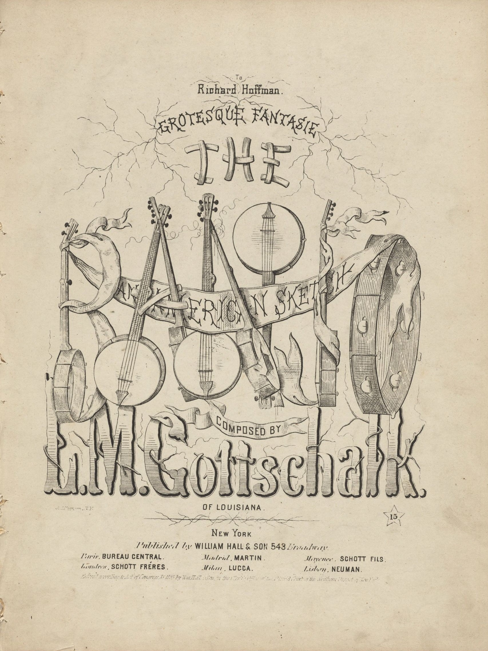 Title page from sheet music for The Banjo; an American sketch; grotesque fantasie,1855, by Louis Moreau Gottschalk (1829-1869). Houghton *62-2162, Houghton Library, Harvard University